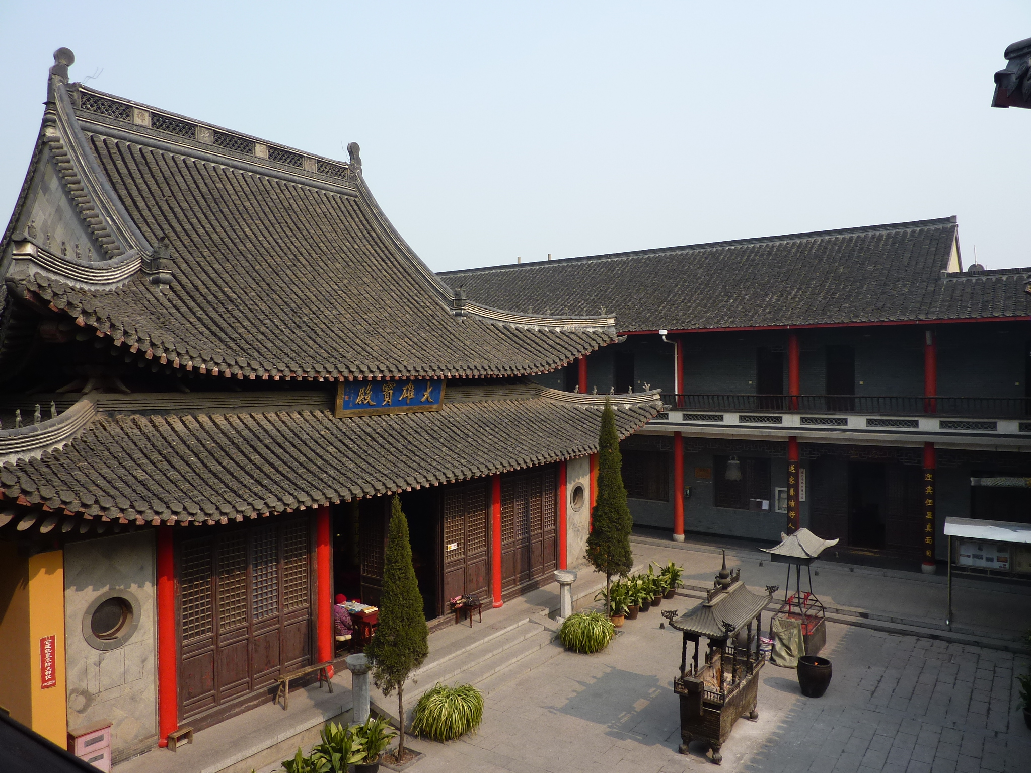 Yangzhou's Jingzhong Temple.